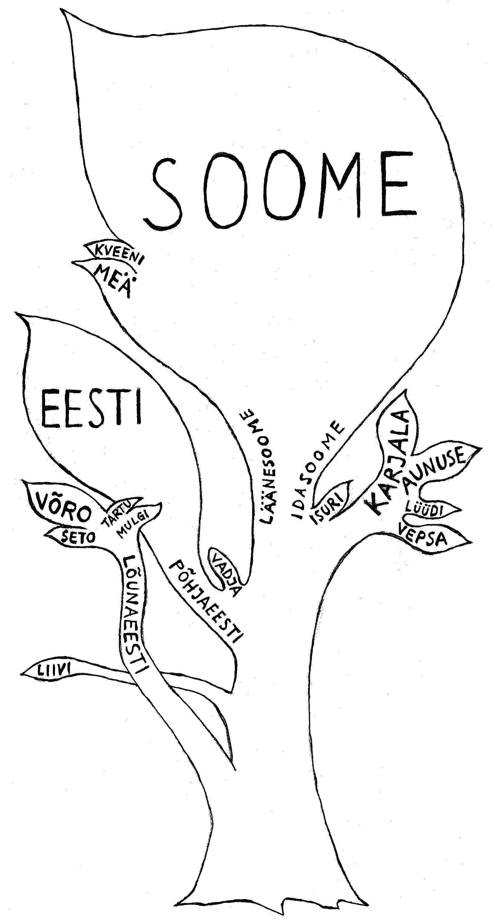 (Baltic-)Finnic language tree Võro: Õdagumeresoomõ keelepuu